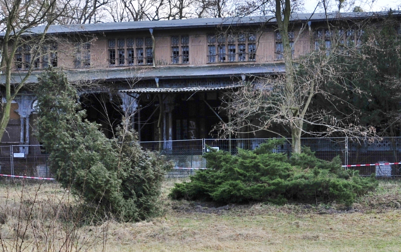 Officers Mess Dallgow-Döberitz 2012, Park side